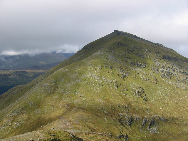 View of Ben More (Crainlarich). Taken during the ascent of neighbouring Stob Binnein, looking north.